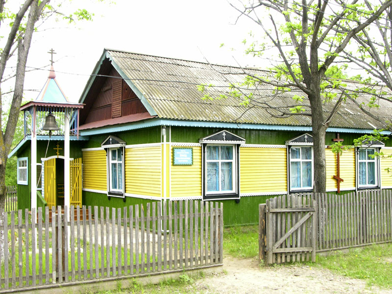 Church of Saint Catherine in Ekaterino-Nikolskoe